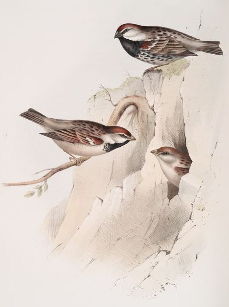 An illustration of a Spanish Sparrow (above; Pyrgita hispaniolensis=Passer hispaniolensis), and Italian Sparrows (below left and right; Pyrgita cisalpina=Passer italiae)